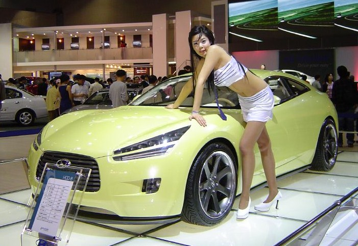 Hyundai HCD-8